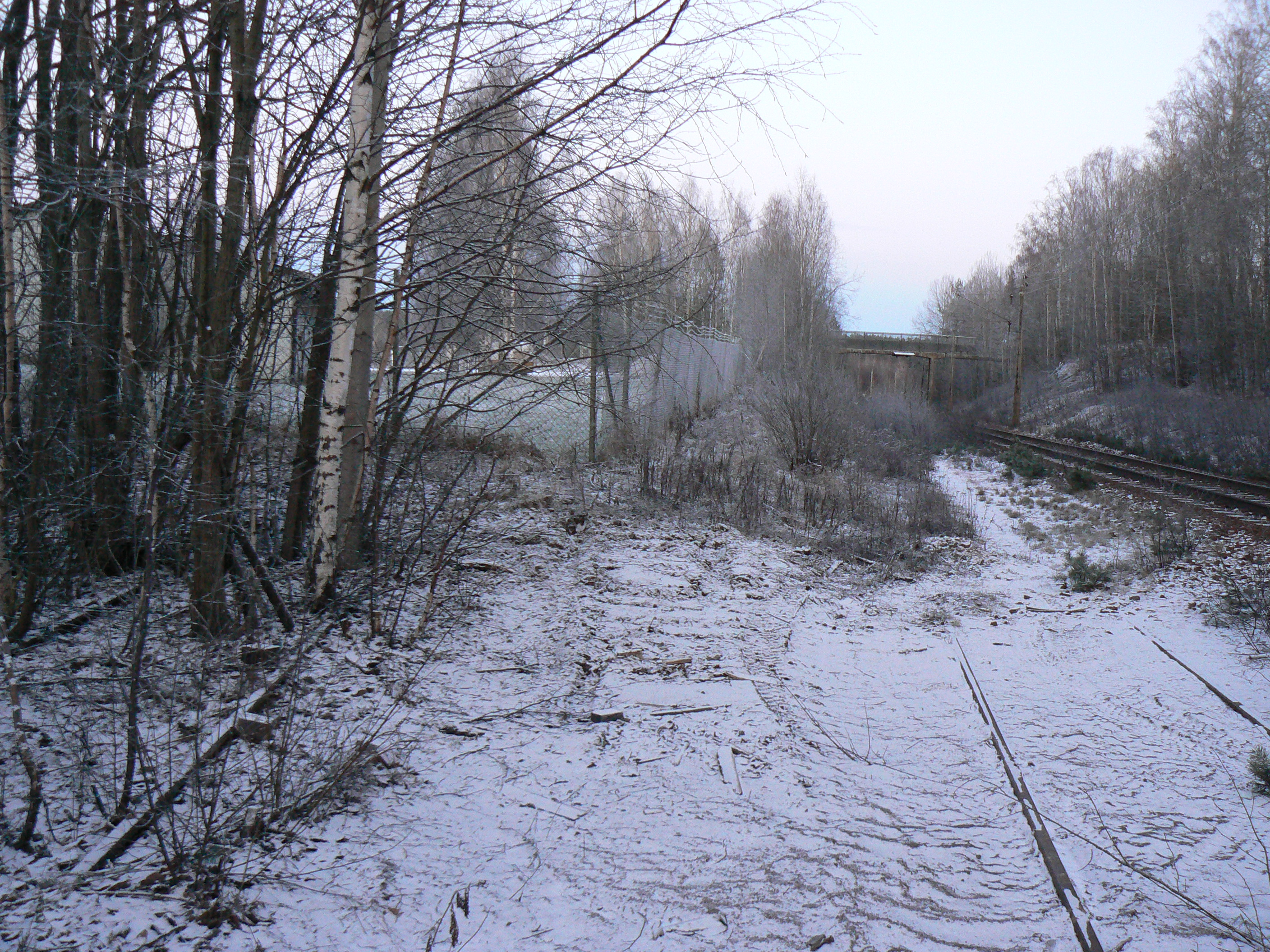 Rester av lastplats på järnvägen nedanför Hosjö kyrka. Here a short narrow-gauge cargo railway once left the normal gauge Bergslagsbanan. Two tracks are left-overs from where cargo was moved between the trains. Photo by Skvattram 2006-01-06.